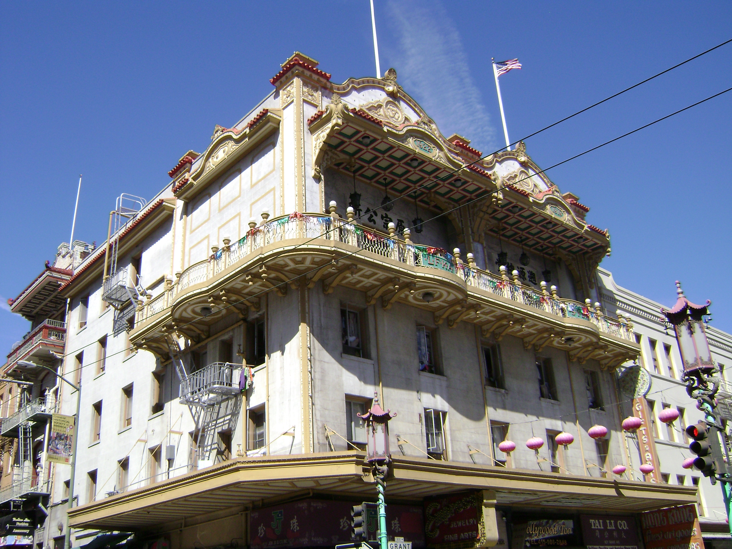 Chinatown, San Francisco, September 2012